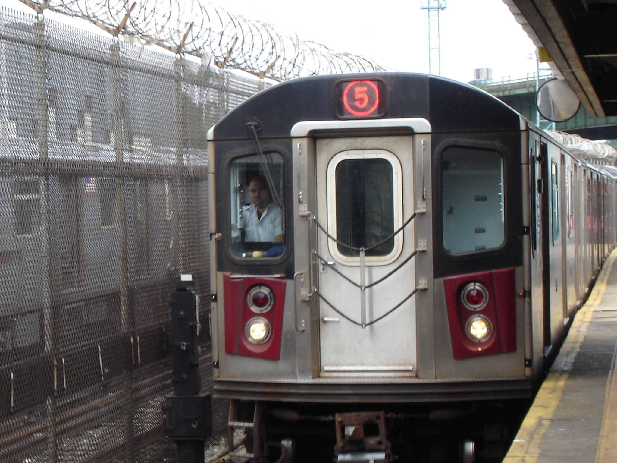 R142 train arrives at East 180th Street station in the Bronx, New York.